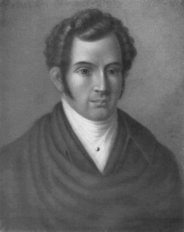 Swedish author Magnus Jacob Crusenstolpe (1795-1865)